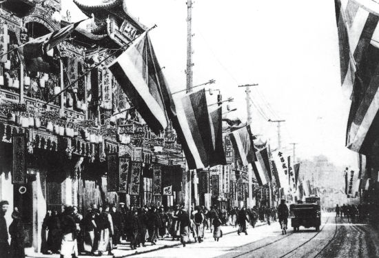 Five colour flag at Nanking Road, Shanghai, November 1911